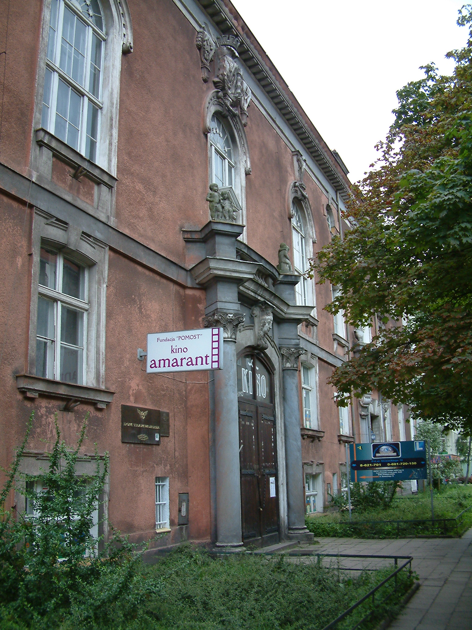 Dom Tramwajarza, Kino Amarant ("House of Tram worker", "Amarant" Cinema) in Poznań